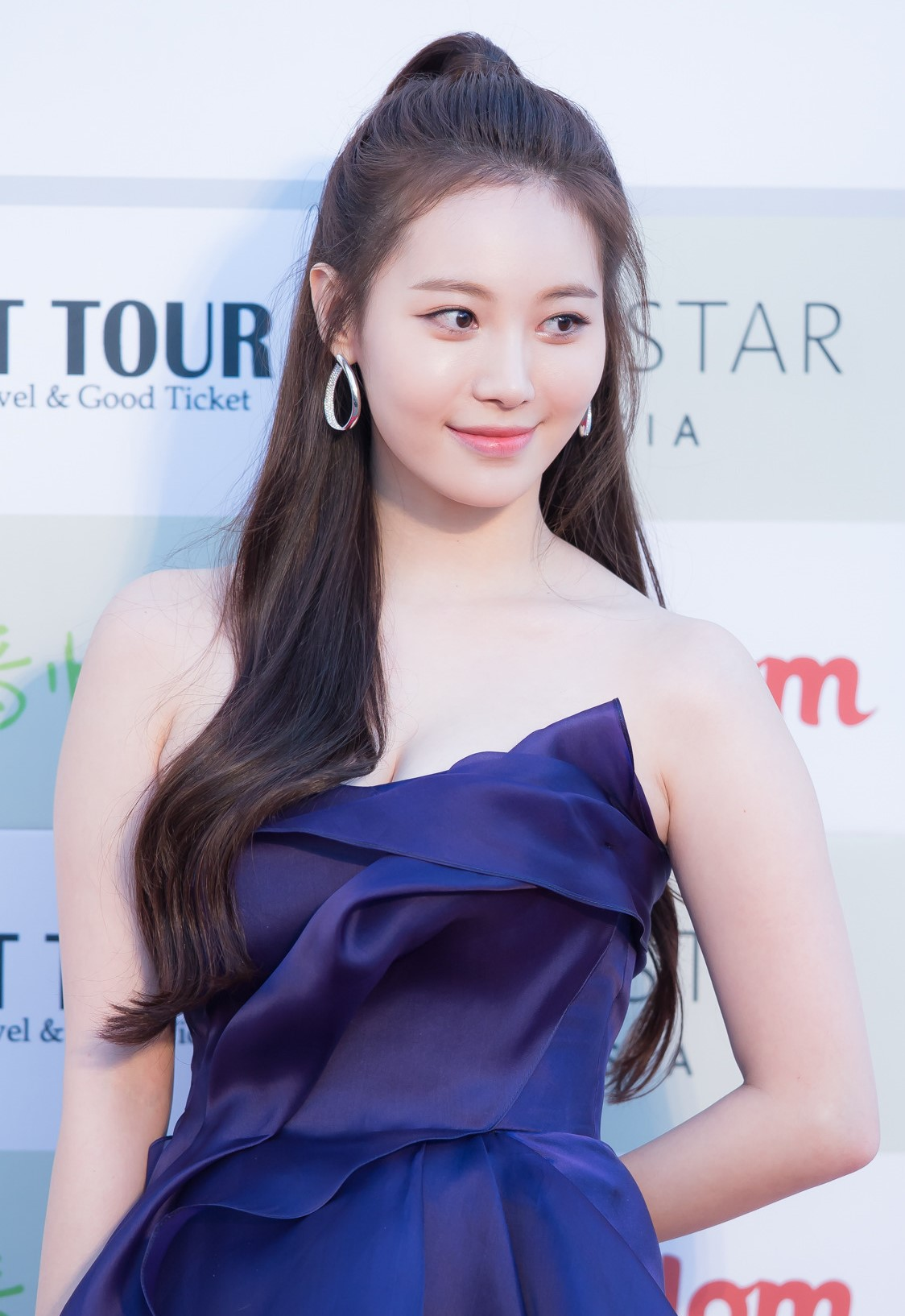 Yura on the red carpet of the Gaon Chart K-pop Awards, on February 17, 2016.